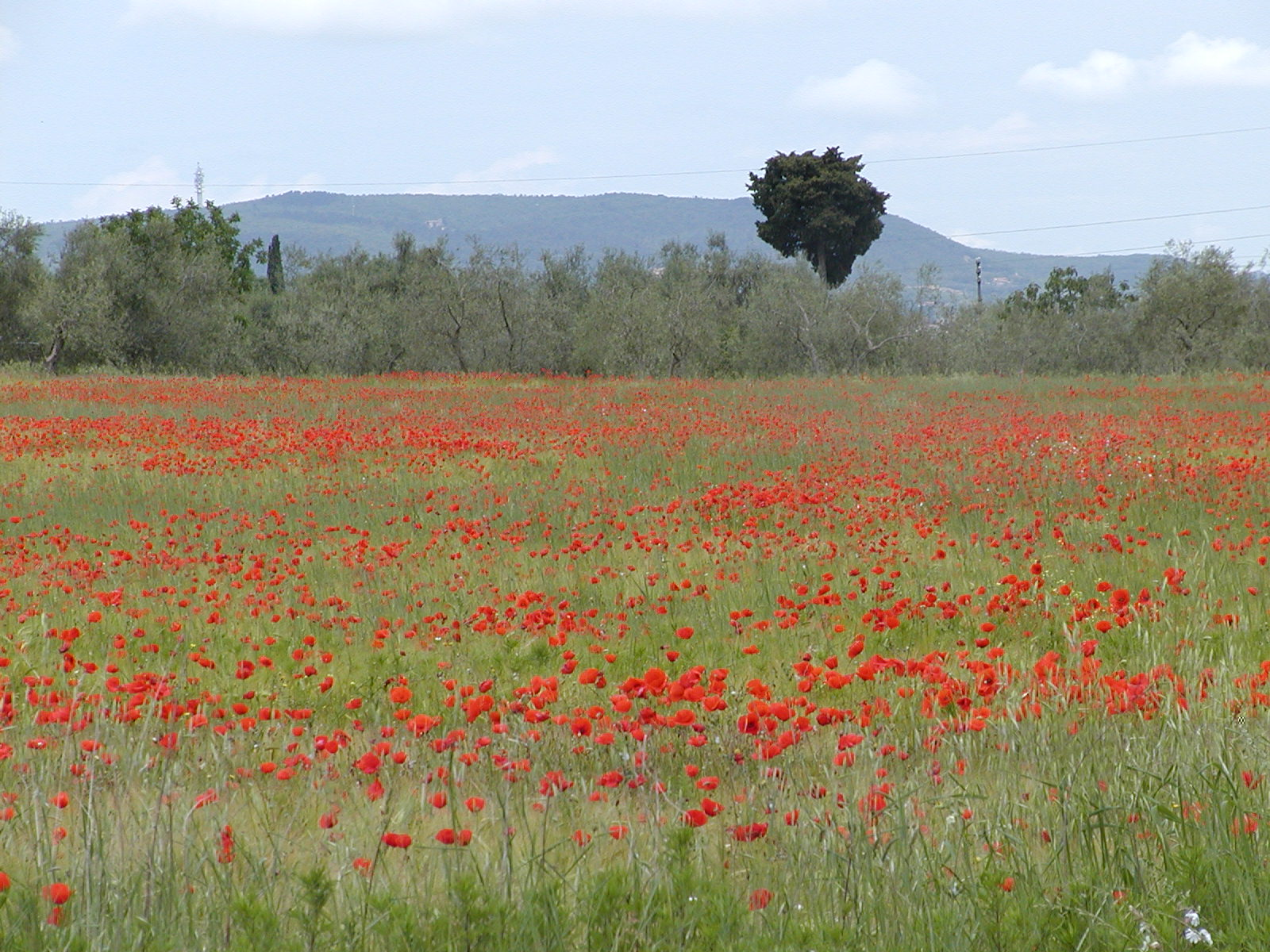 Field with flowering poppies (wildflowers/weeds) in Toscana, Italy